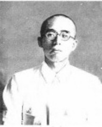 Akira Shimada, the last pre-war governor of Okinawa Prefecture, Japan.